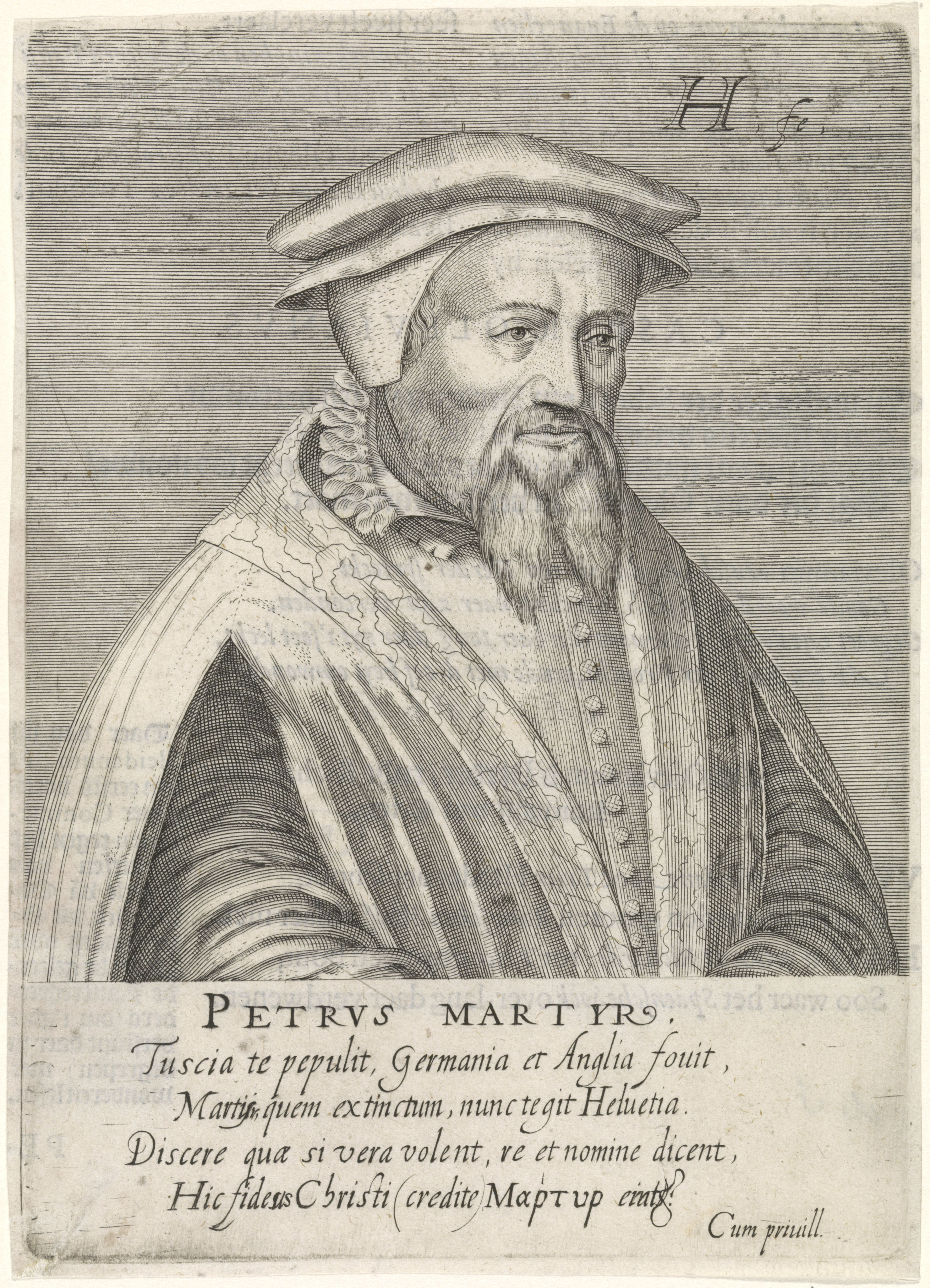 Portrait of Peter Martyr Vermigli